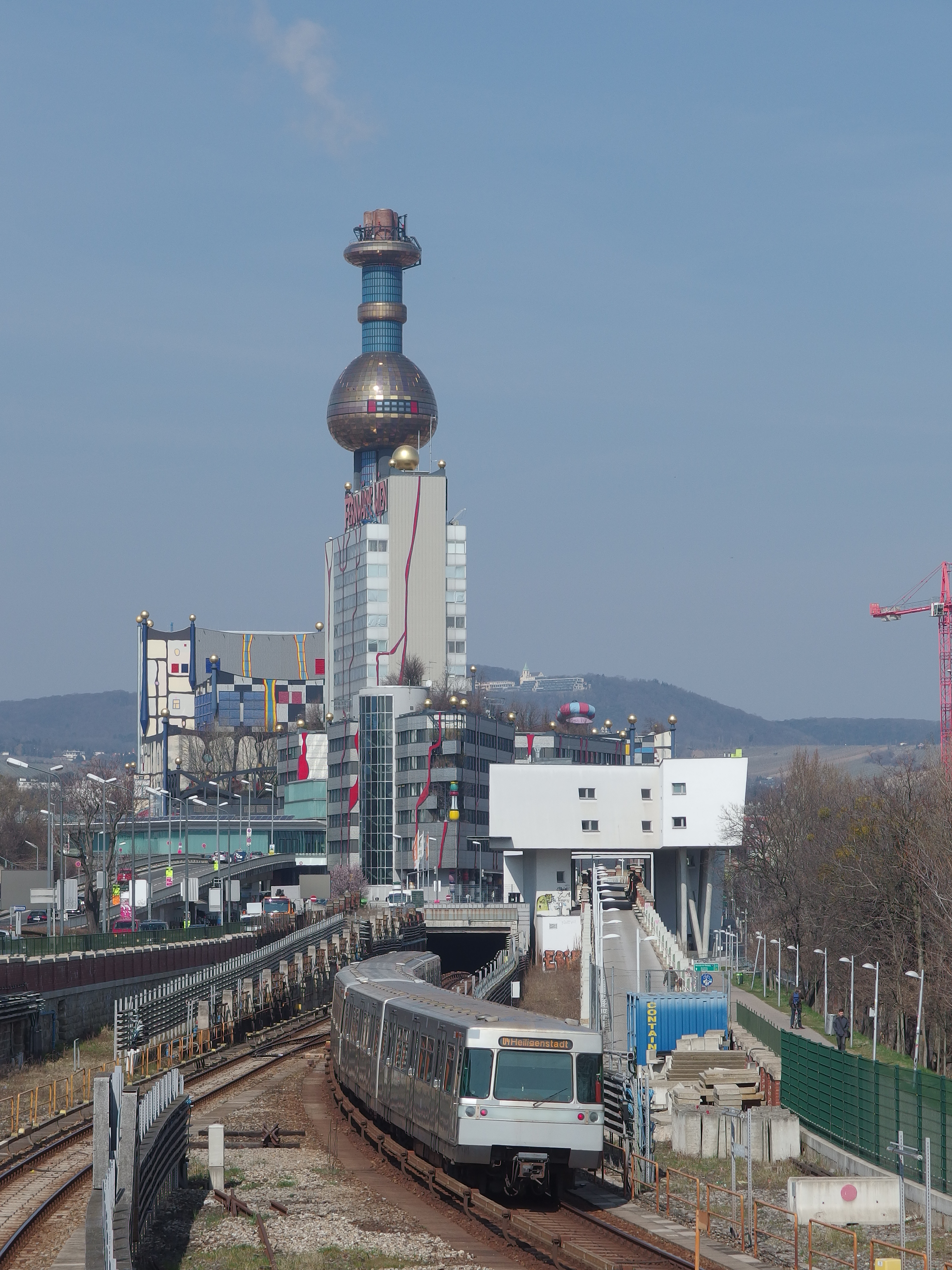 U4 train heading for Heiligenstadt between Friedensbrücke and Spittelau, taken from northern end of Friedensbrücke station. In the background the Spittelau incineration plant and the Zaha Hadid house can be seen.